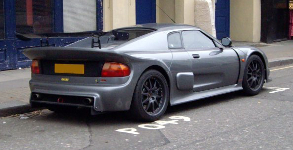 Noble M400 in London License on Flickr (2011-04-27): CC-BY-2.0 Flickr tags: Noble, M400, London